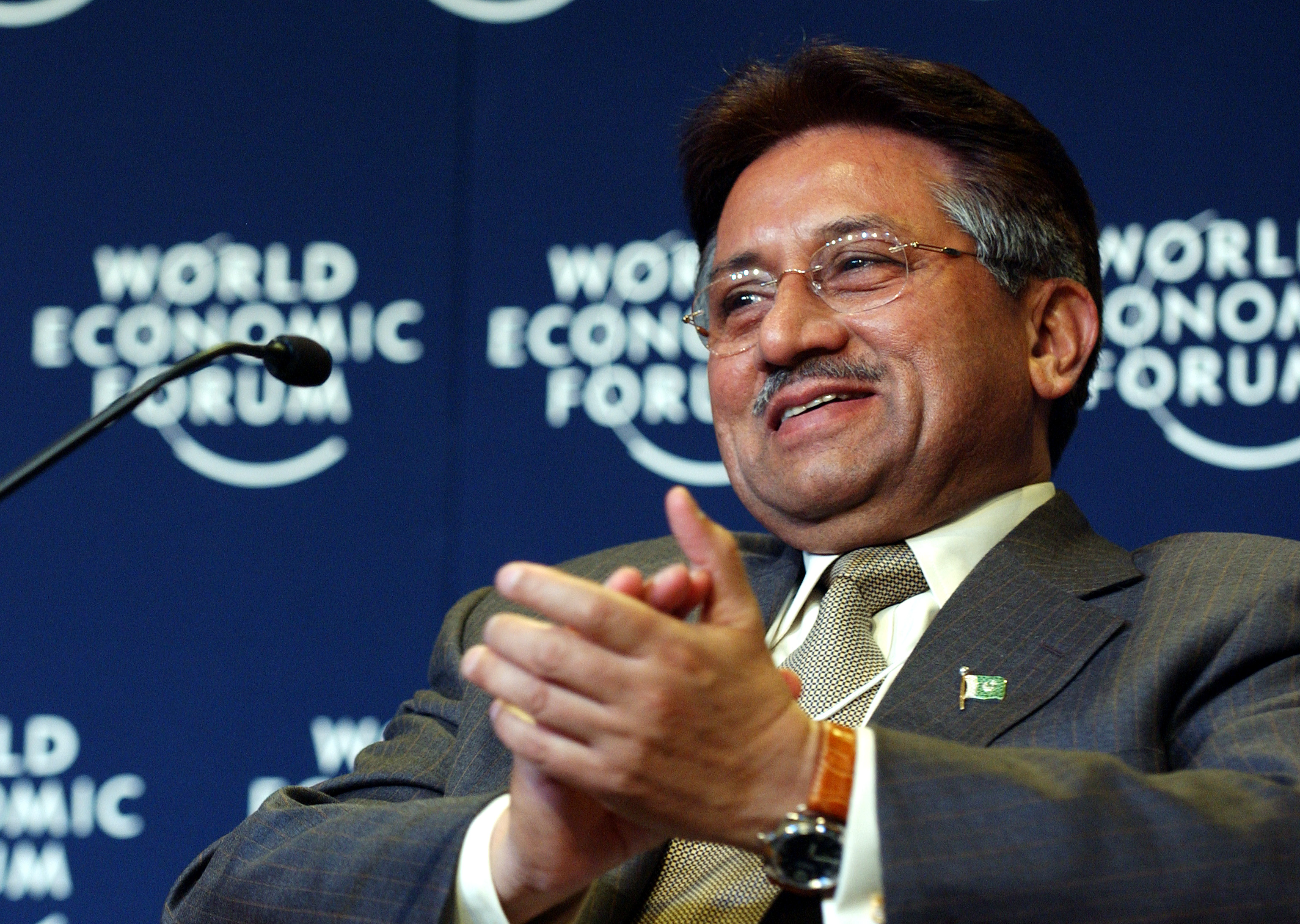 DAVOS/SWITZERLAND, 22JAN04 - Pervez Musharraf, President of Pakistan, applauds during the session 'Promoting Inter-Civilization Dialogue and Action' at the Annual Meeting 2004 of the World Economic Forum in Davos, Switzerland, January 22, 2004. Copyright World Economic Forum ( by Remy Steinegger